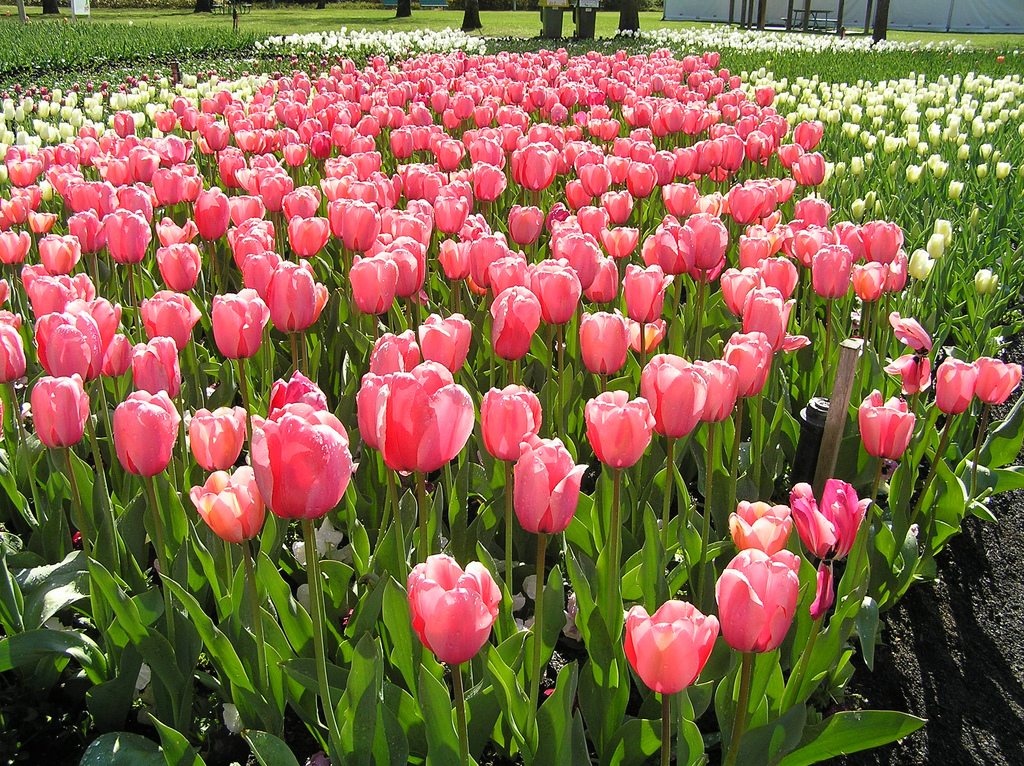 Canberra ACT Floriade 2007, Canberra